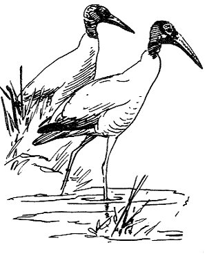 Line art of a Wood Stork pair